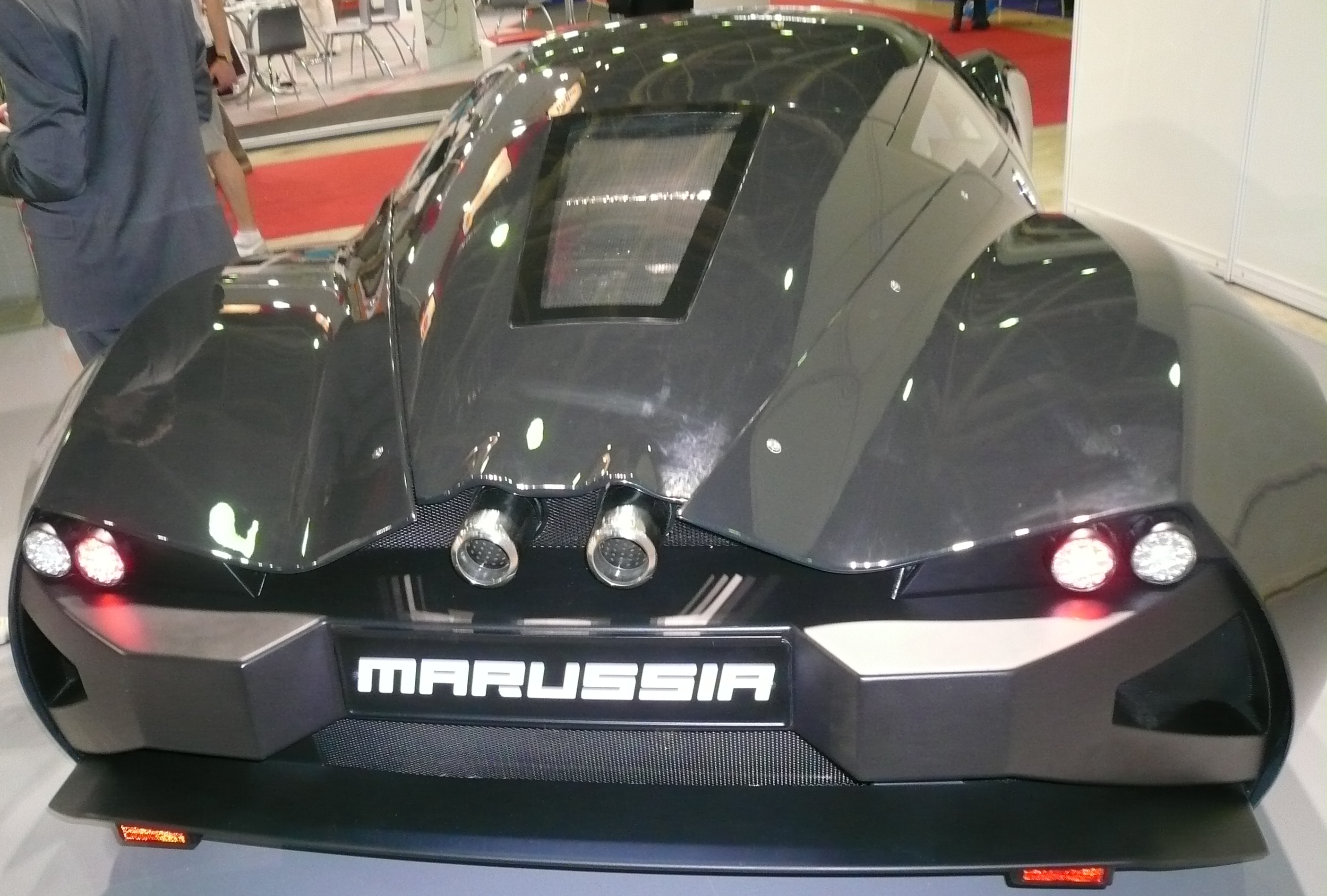 Marussia B2.